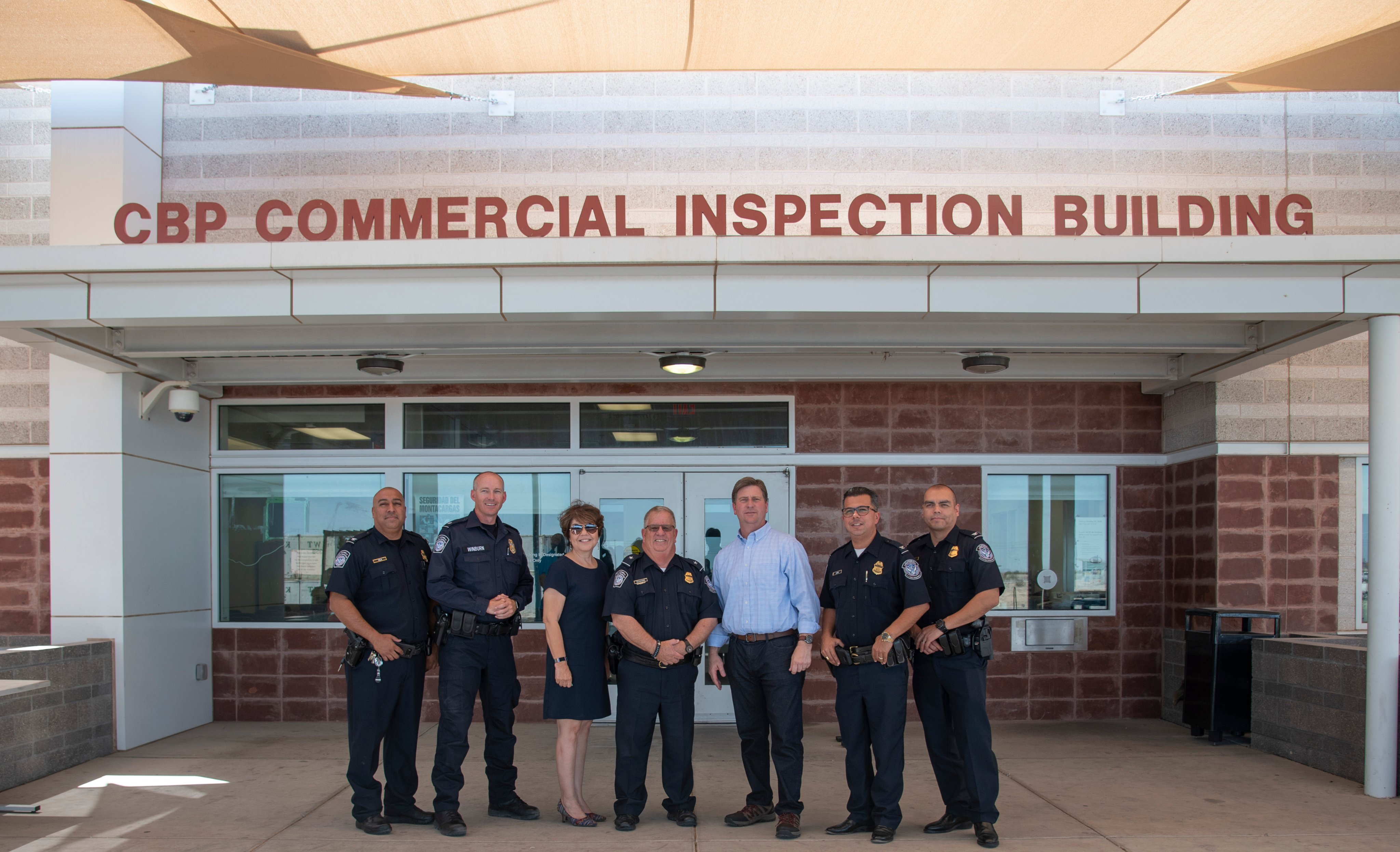 We first toured the Port of San Luis II, where U.S. Customs officials inspect and process commercial imports. It's a critical facility that supports our cross-border trade and business.